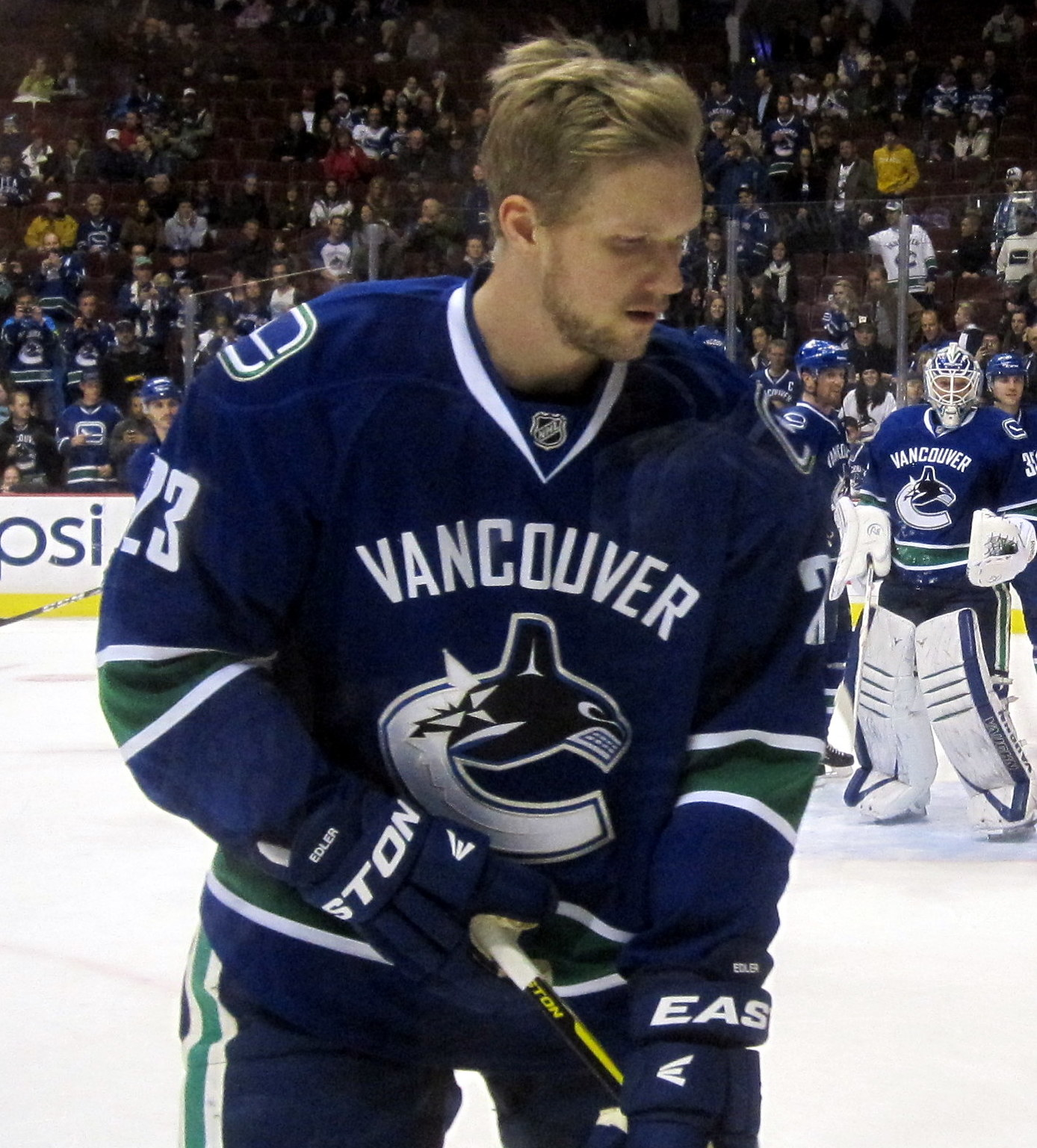 Vancouver Canucks defenceman Alexander Edler during a pre-game warm-up on March 14, 2012.